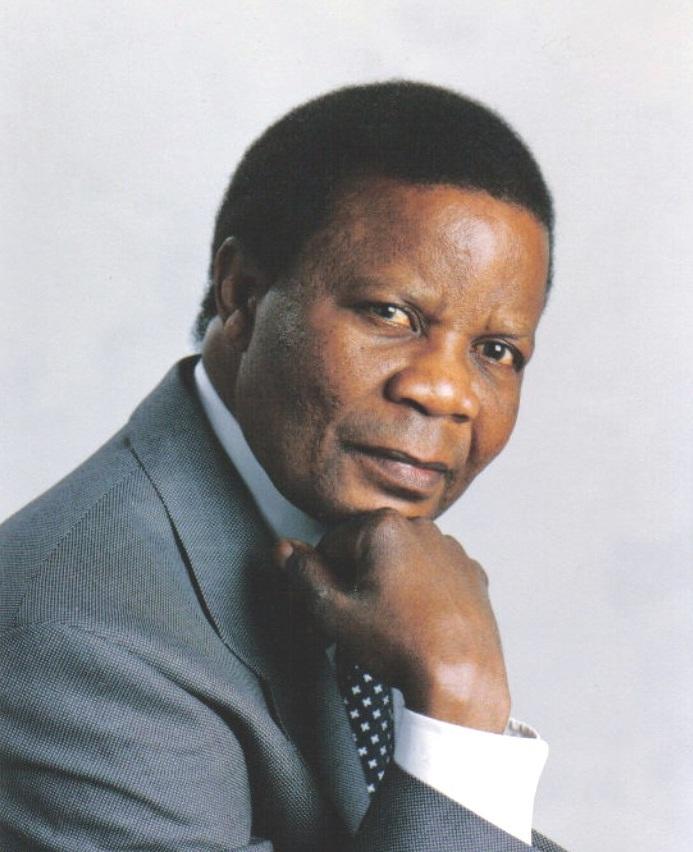 S.M. Chisembele, Cabinet Minister in Republic of Zambia 01.03.1930 - 05.02.2006